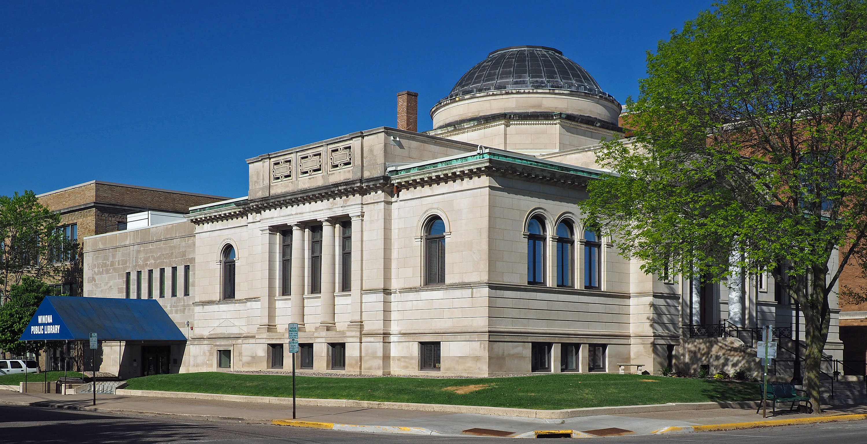 Winona Public Library, 151 W 5th St, Winona, Minnesota, USA. Viewed from the northeast.